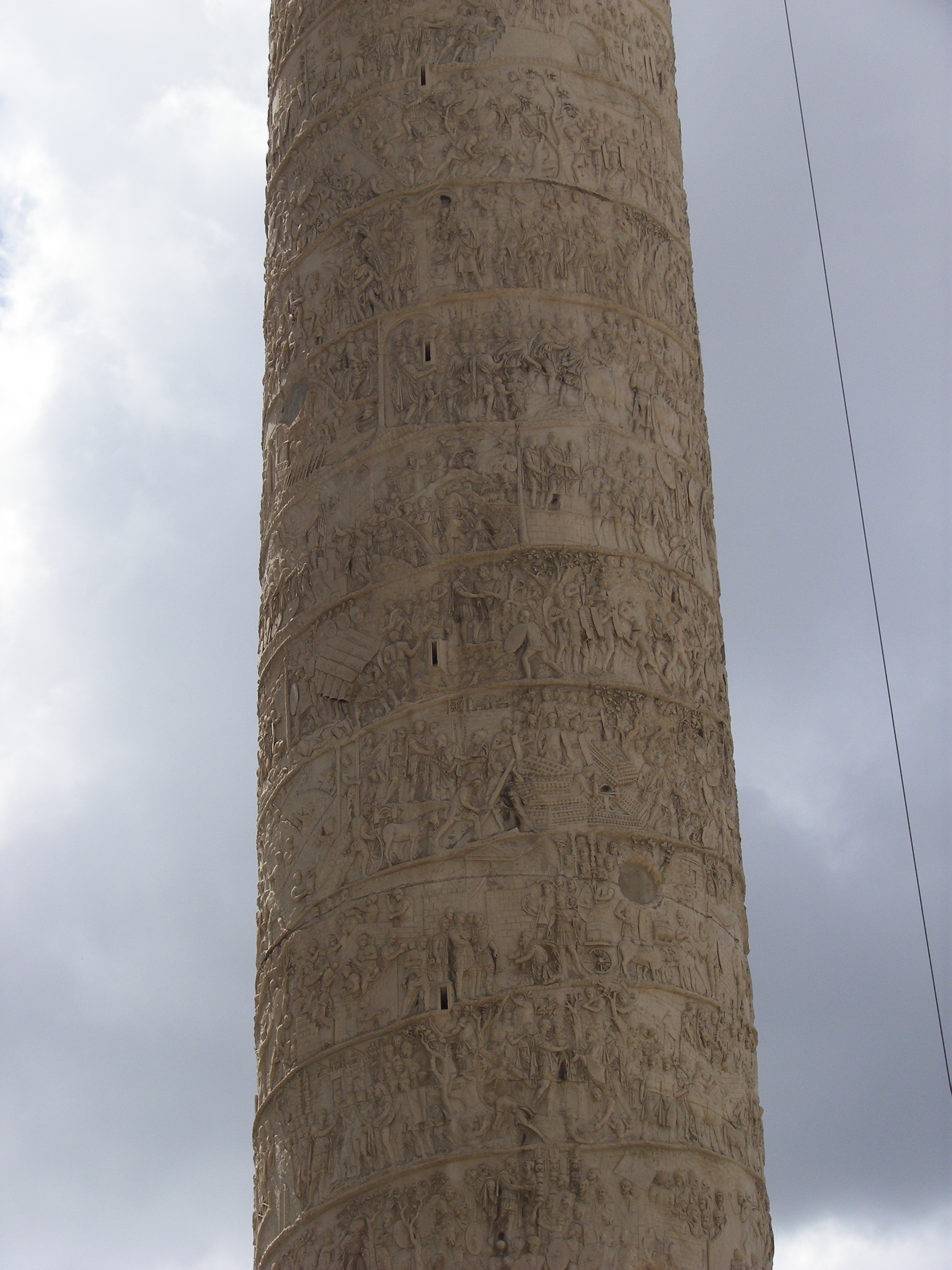 Reliefs on the Columna Traiana in Rome.